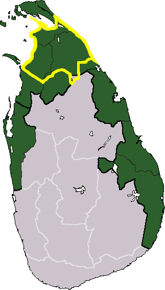 Modification of File:Location Tamil Eelam territorial claim2.png with zone traced from dotted blue line (and current front line) from [1]. Discussion suggested this was more accurate than [2]